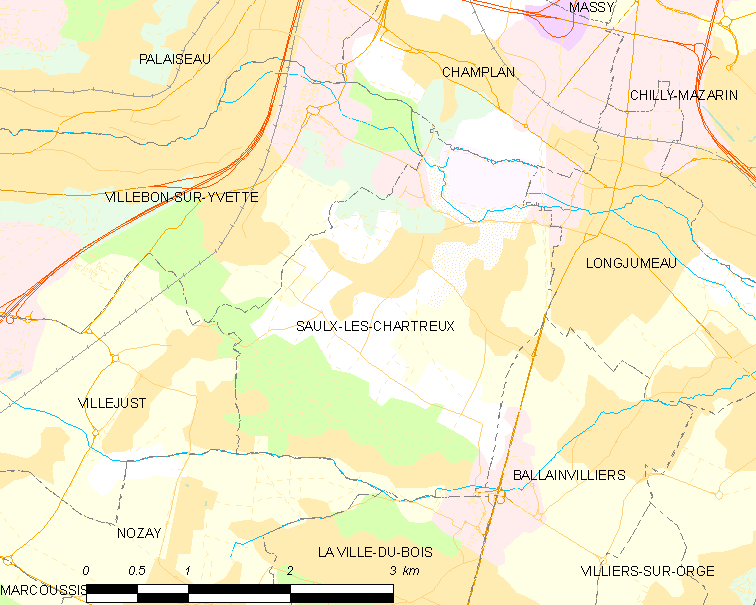 Map of French municipality Saulx-les-Chartreux